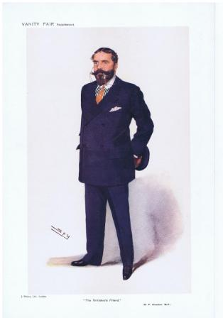 Caricature of Robert Paterson Houston MP. Caption read "The Britisher's Best Friend".